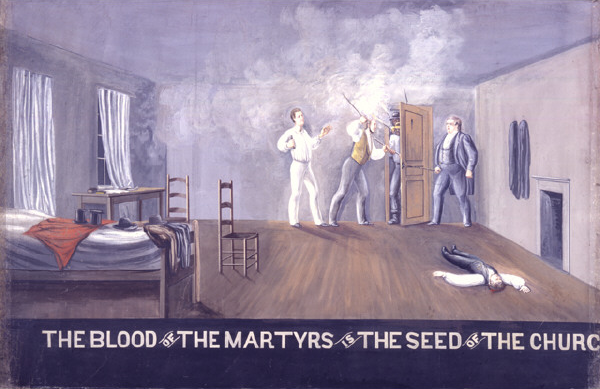 "Interior of Carthage Jail" by C.C.A. Christensen